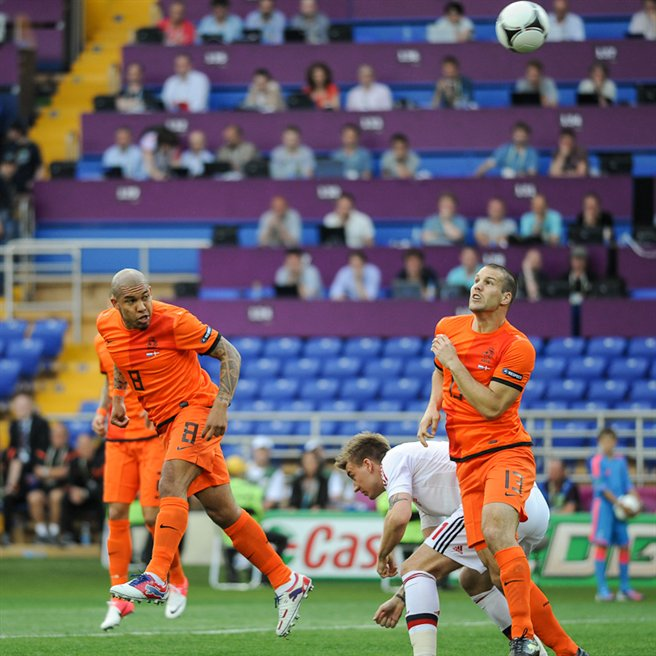 UEFA Euro 2012 match between Netherlands and Denmark that took place in Kharkiv. Final result was 0:1 (Krohn-Delhi)